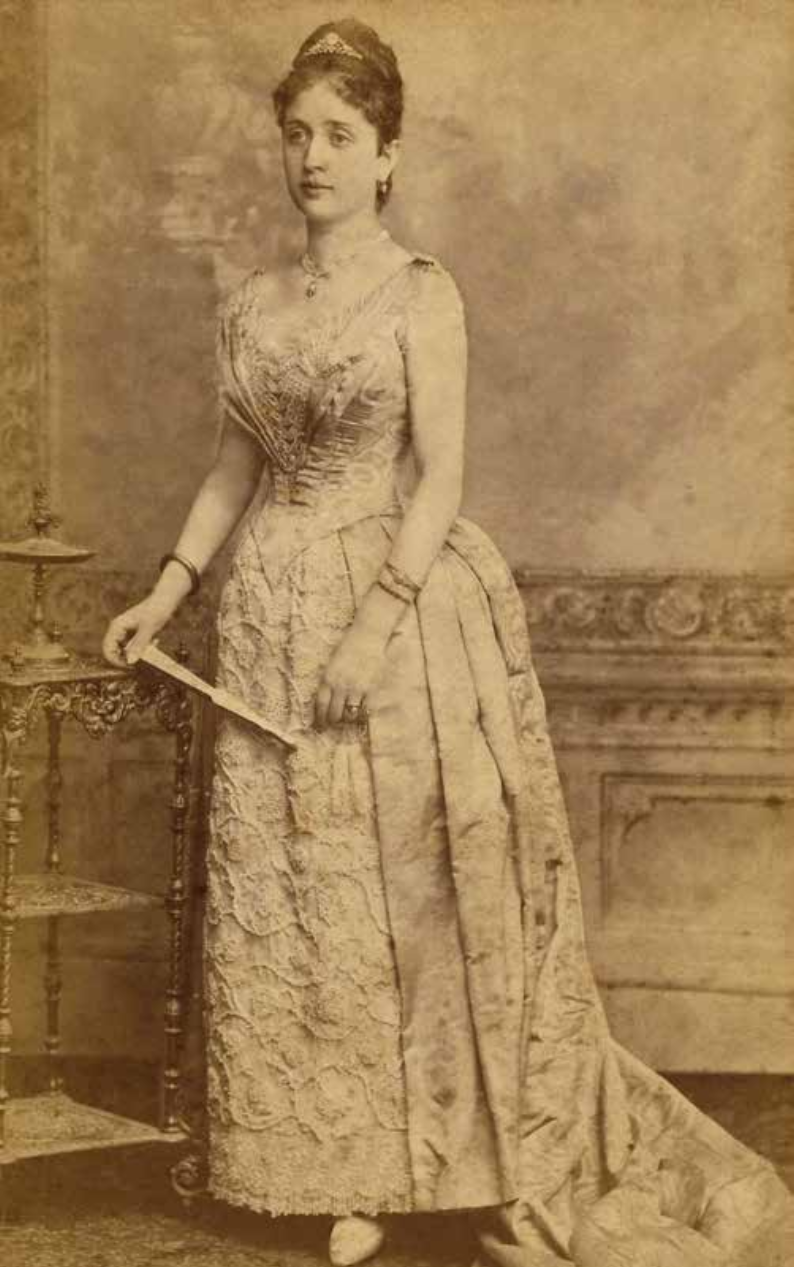 Maria Clementina de Lancastre Vasconcelos e Sousa Leme Corte-Real, Countess of São Januário (1865-1939), in an 1888 photograph. In the private collection of Professor João Luís Cardoso.